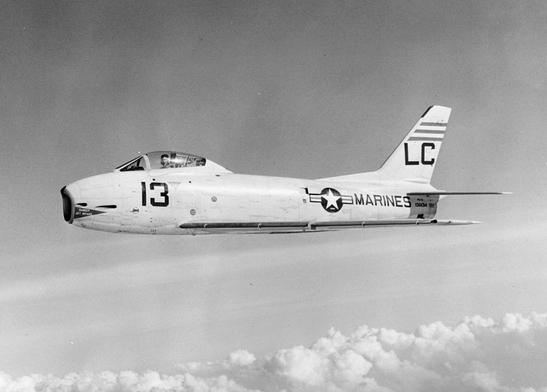 A U.S. Marine Corps North American FJ-3 Fury fighter (BuNo 136134) from Marine Fighter Squadron VMF-122 Crusaders in flight.